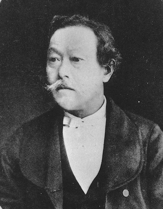 Portrait of Nishi Amane (西周, 1829 – 1897)